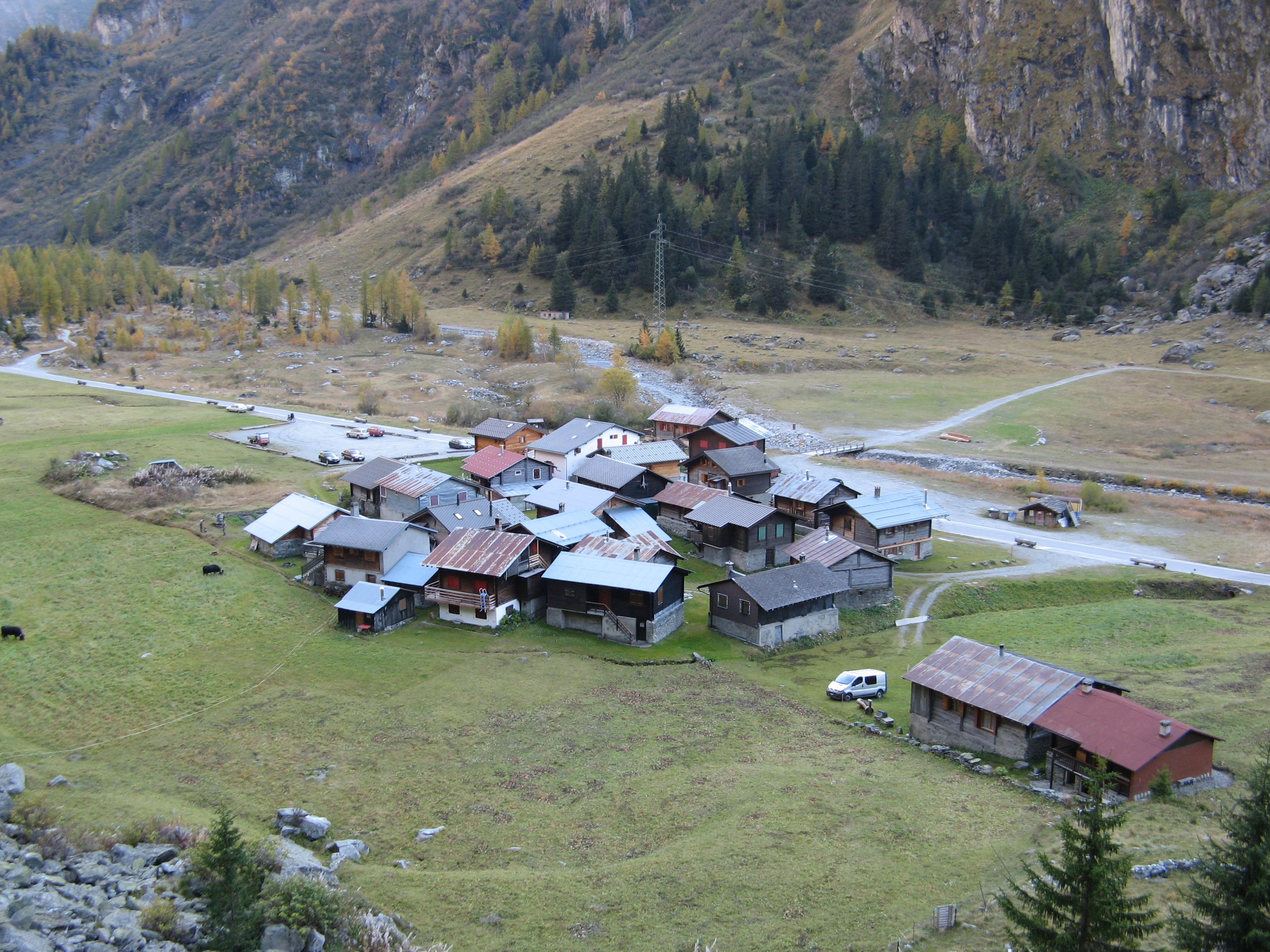 Bonatchiesse village in Bagnes, Valais, Switzerland.